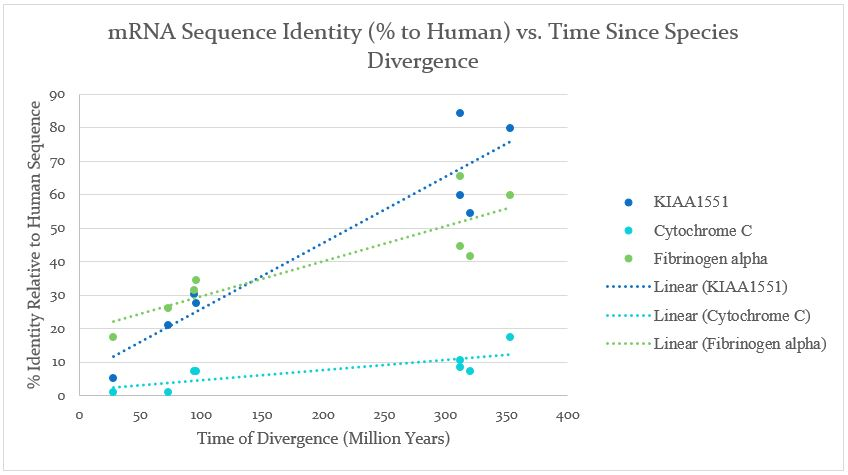 Divergence graph of KIAA1551 in comparison to cytochrome c and fibrinogen alpha.